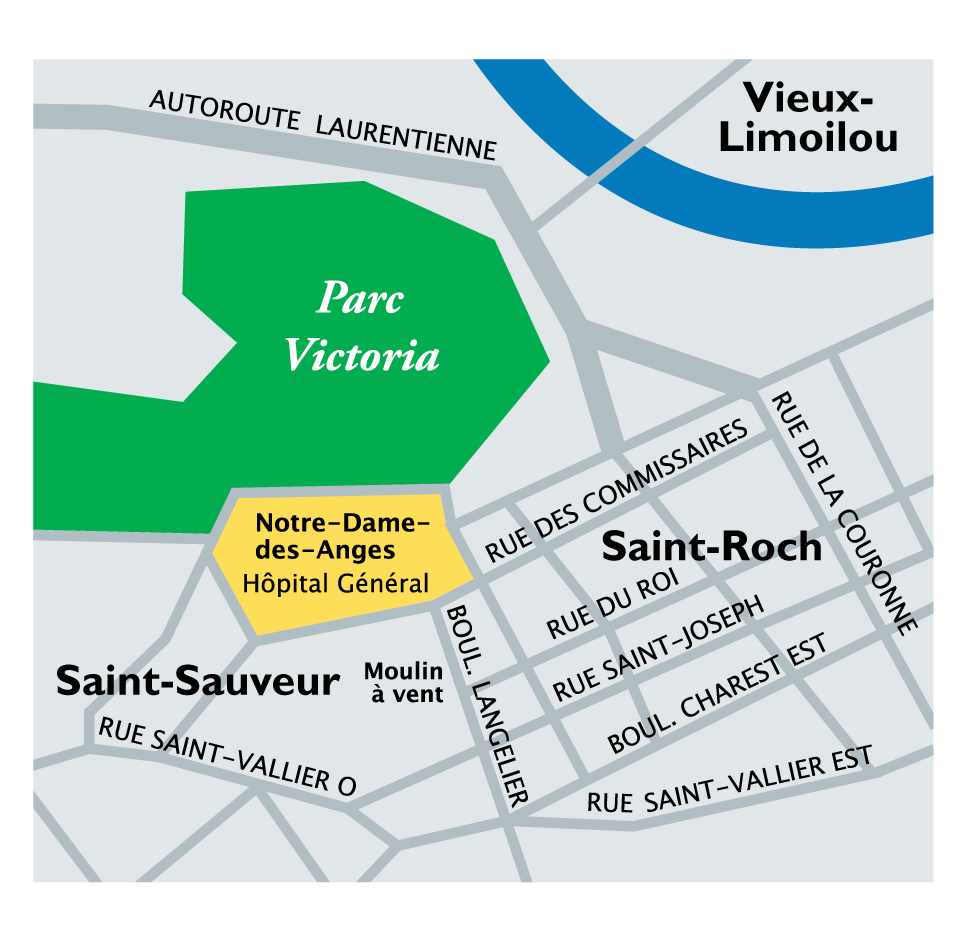 Notre-Dame-des-Anges, Capitale-Nationale Québec (Canada) Hôpital Général